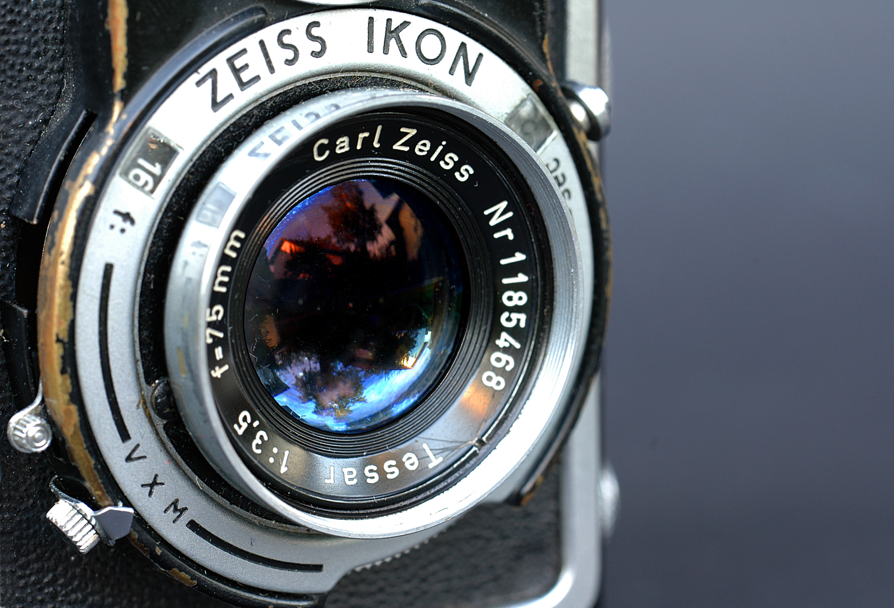 Zeiss-Ikon Ikoflex lense